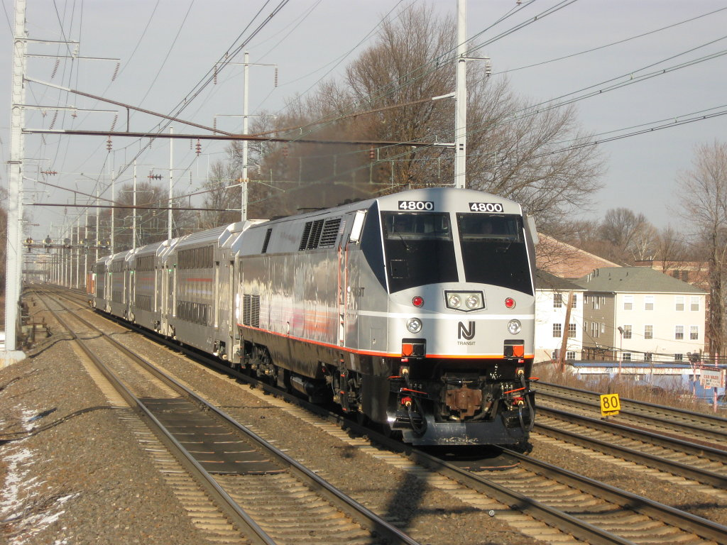 GE Genesis P40DC #4800 runs in diesel under wire pulling Atlantic City Express Service (ACES) train #7163 through Elizabeth express down the Northeast Corridor to Atlantic City.